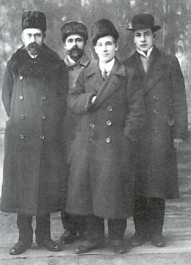 The Ramstedt Brothers, from left: Gustaf John, Gustaf Adrian Emanuel ("Manu"), Gustaf Johannes Rafael ("Rafu"), Armas Israel Zacheus